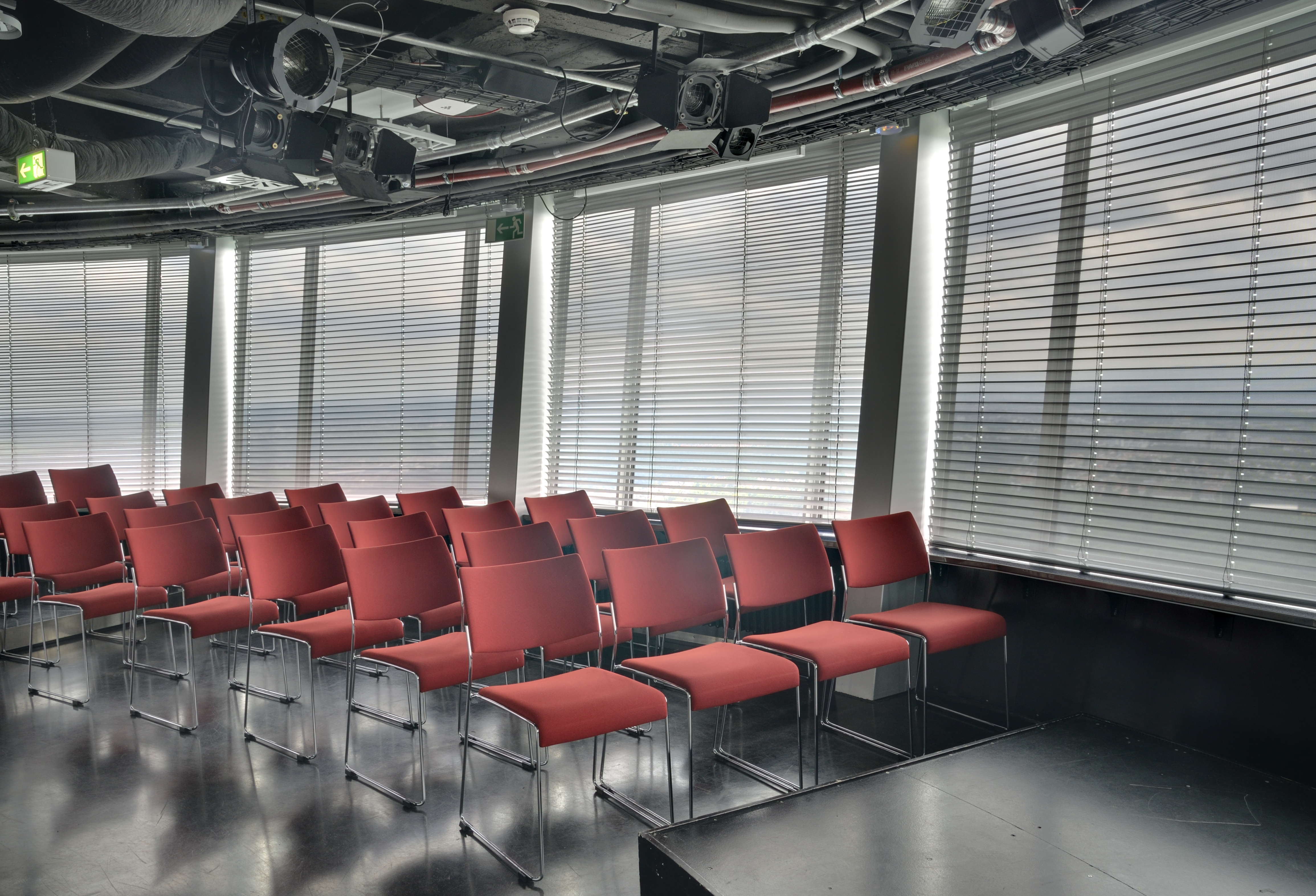 Television Tower Stuttgarter: function room in main pod